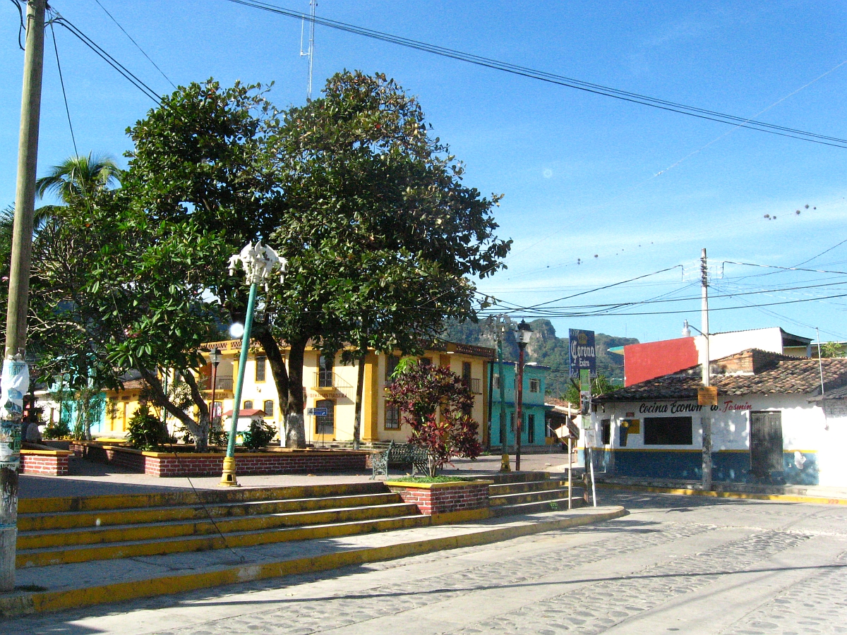 Piazza in Jalcomulco village, Veracruz, Mexico